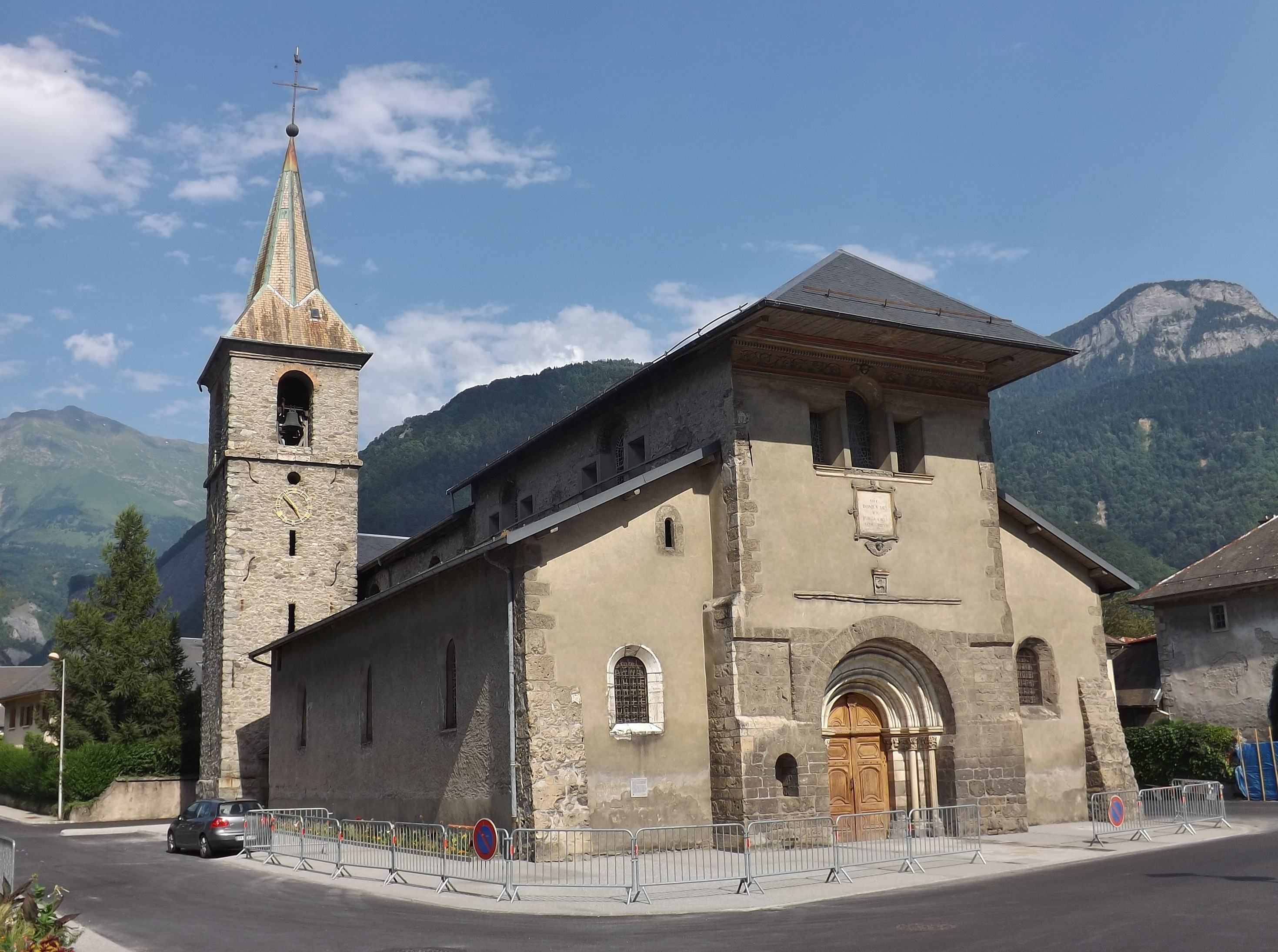 Sight of the French commune of La Chambre church (ancienne collégiale Saint-Marcel), in the Maurienne valley, in Savoie.